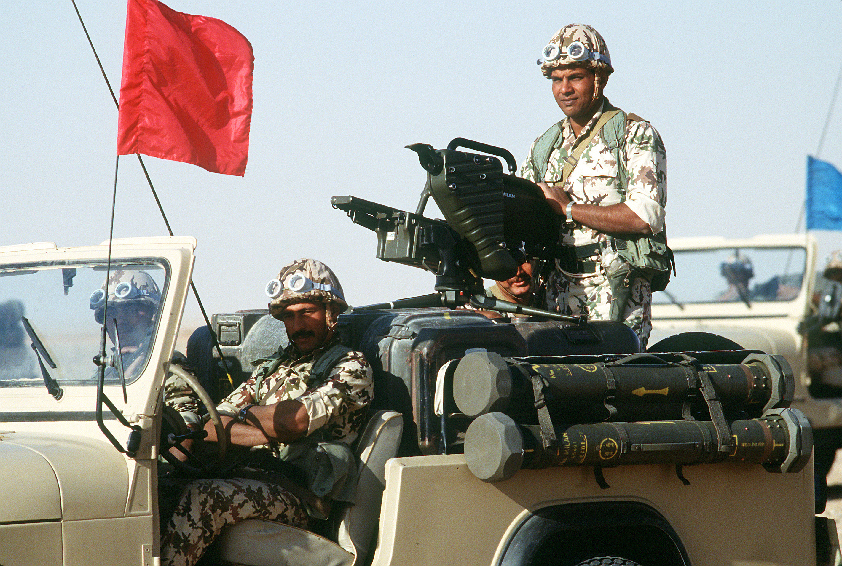 A crew of an Egyptian ranger battalion waits to parade in their Jeep YJ light vehicle armed with a MILAN portable ATGM lancher during a demonstration for visiting dignitaries during Operation Desert Shield.